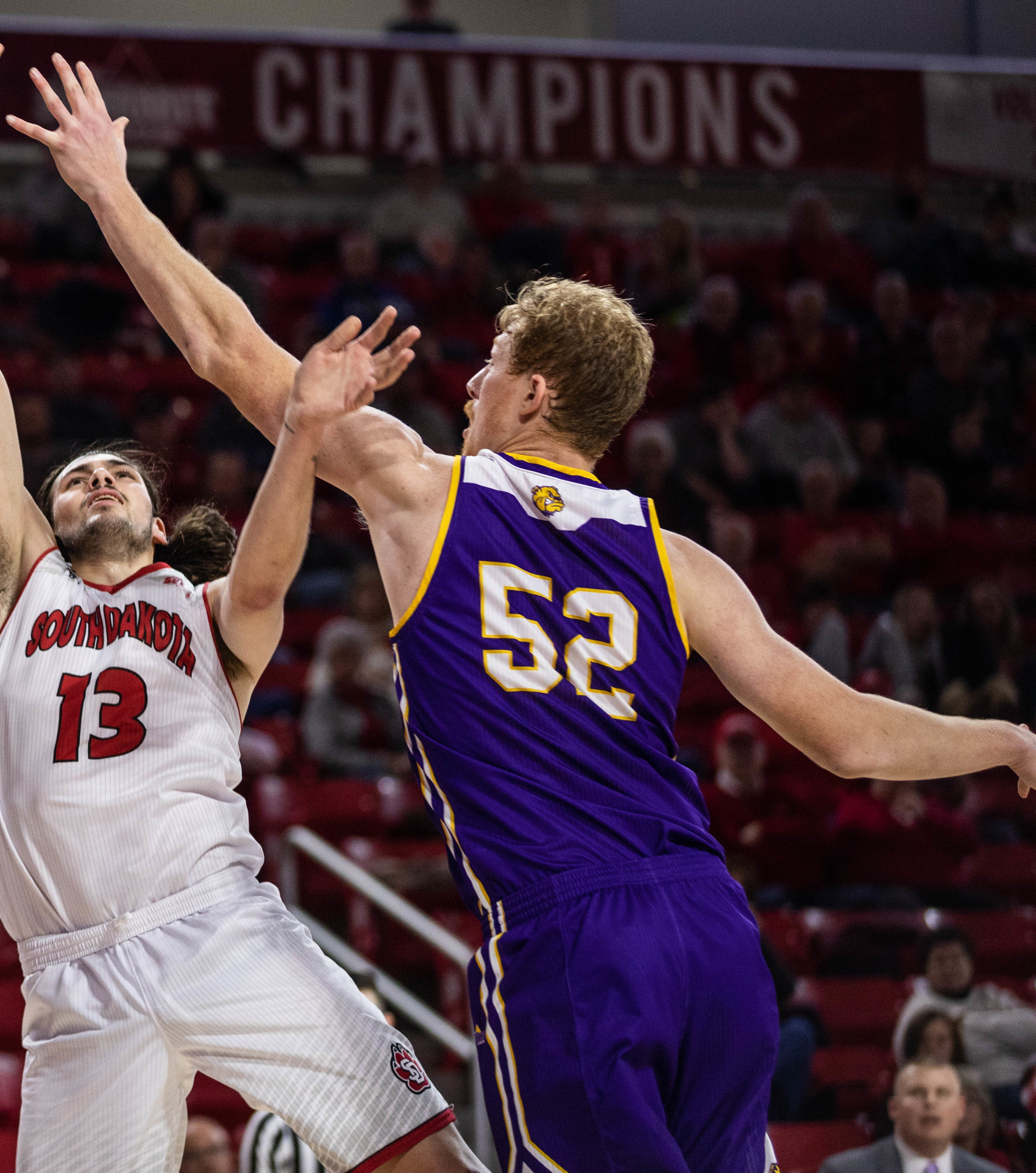 Gilbeck attempts to block a shot